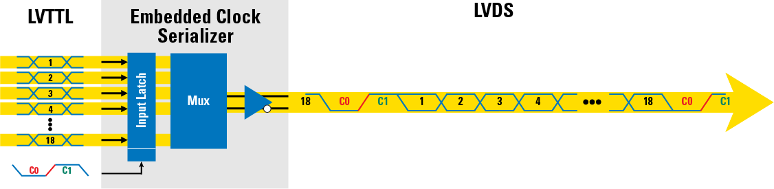 Embedded clock serializer example showing serialized bits with "start-stop" clock bits. In this example, 18 bits are serialized.